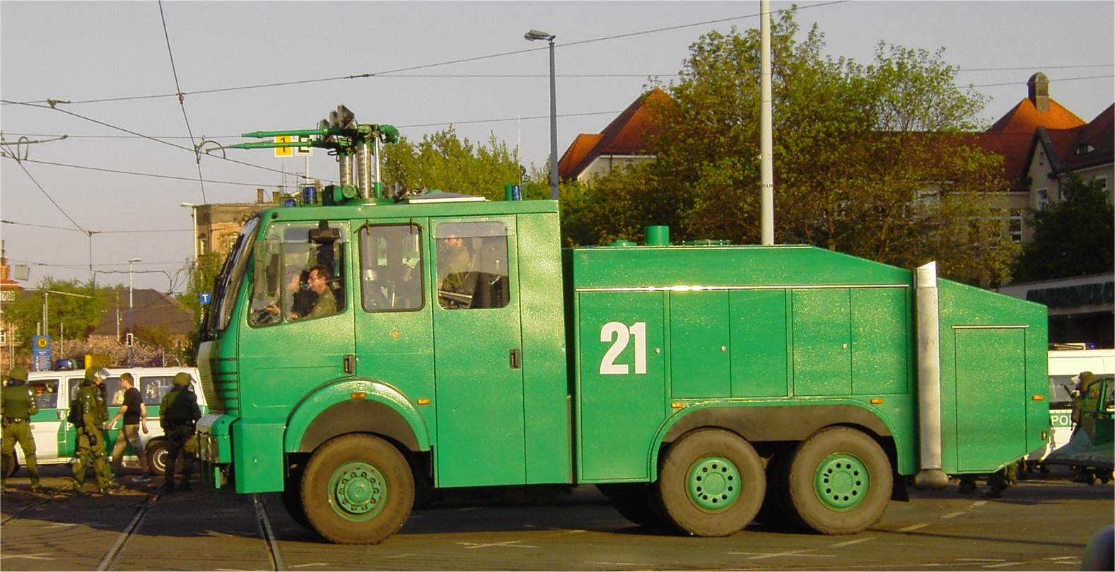 German Police - Water cannon Mercedes-Benz WaWe 9000